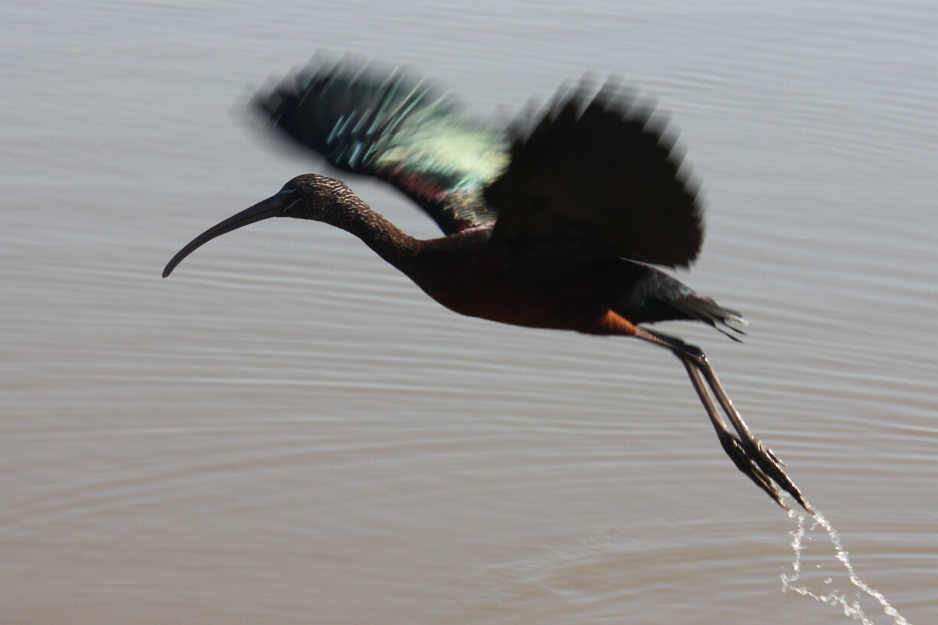 "Maglan" (Glossy Ibis) in the Safari, Ramat-Gan, Israel